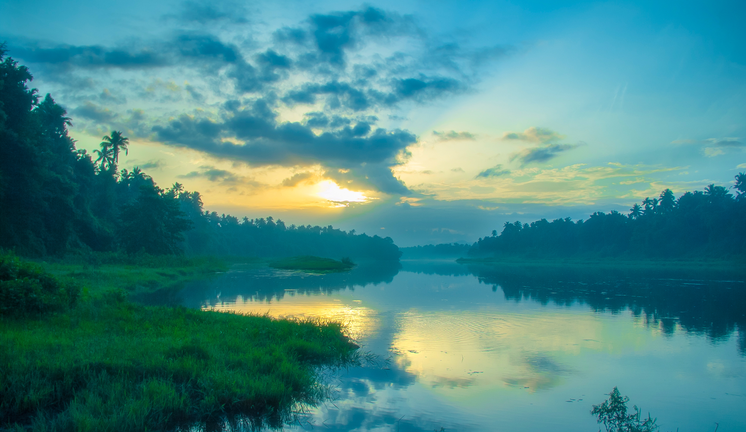 The Serenity of a Sunrise